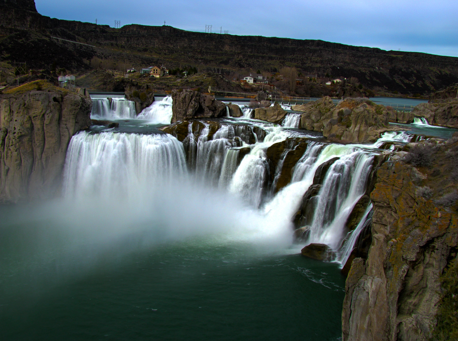 Shoshone falls located in the state of Idaho